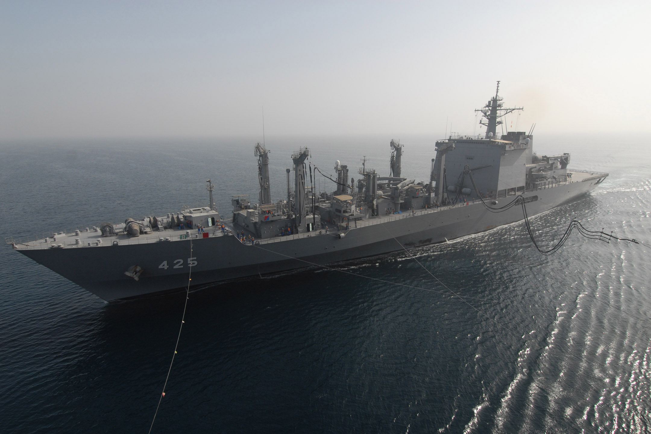 Persian Gulf (Sept. 22, 2006) - The Japanese supply ship JDS Mashu (AOE-425) pulls along side the amphibious assault ship USS Iwo Jima (LHD-7) for a replenishment at sea (RAS). Iwo Jima recently deployed from her homeport of Norfolk, Va., and began a regularly scheduled deployment to the U.S. European Command and U.S. Central Command (CENTCOM) areas of responsibility (AOR) to conduct Maritime Security Operations (MSO). U.S. Navy photo by Mass Communication Specialist Seaman Christopher L. Clark (RELEASED)